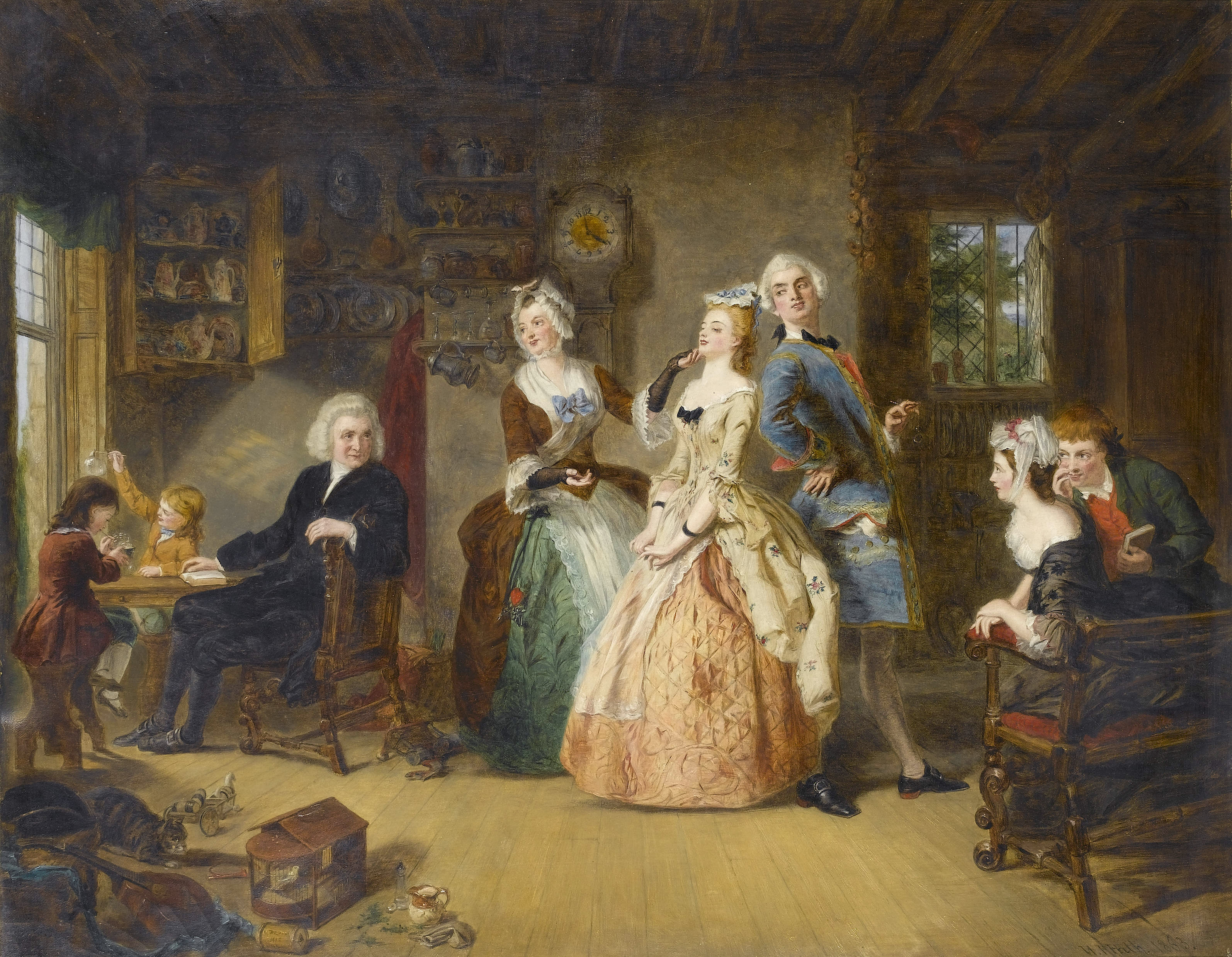 Measuring Heights : A scene from Oliver Goldsmith's "The Vicar of Wakefield". Signed and dated W.P.Frith.1863. Oil on canvas, 53.5 x 68 cm